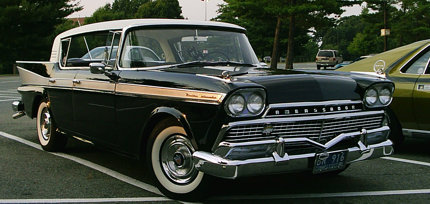 American Motors Corporation (AMC) vehicle - the 1958 Ambassador by Rambler - a top-of-the line 4-door hardtop body style (no center or "B" pillar) - front view. Picture taken at the AMCRC show in Gaithersburg, Maryland. "Cruise" to the Lake Forest Mall.